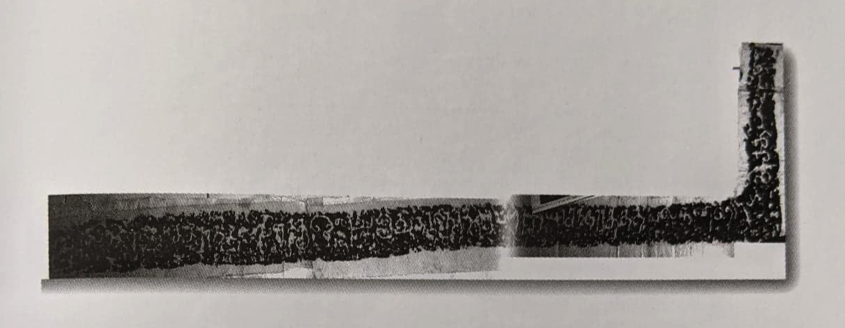 Velgam Vihara Tamil inscription, 11th century AD